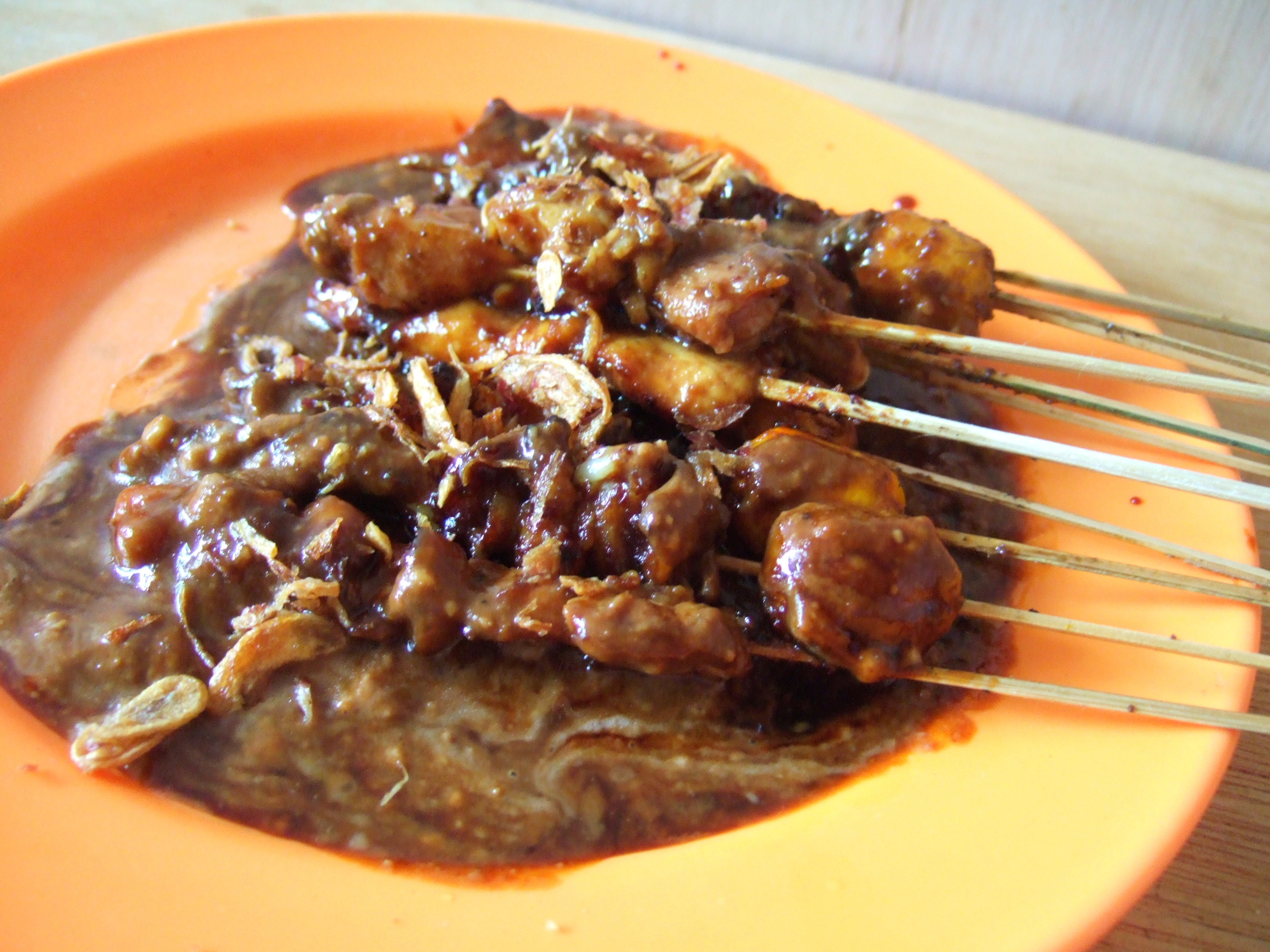 Chicken satay